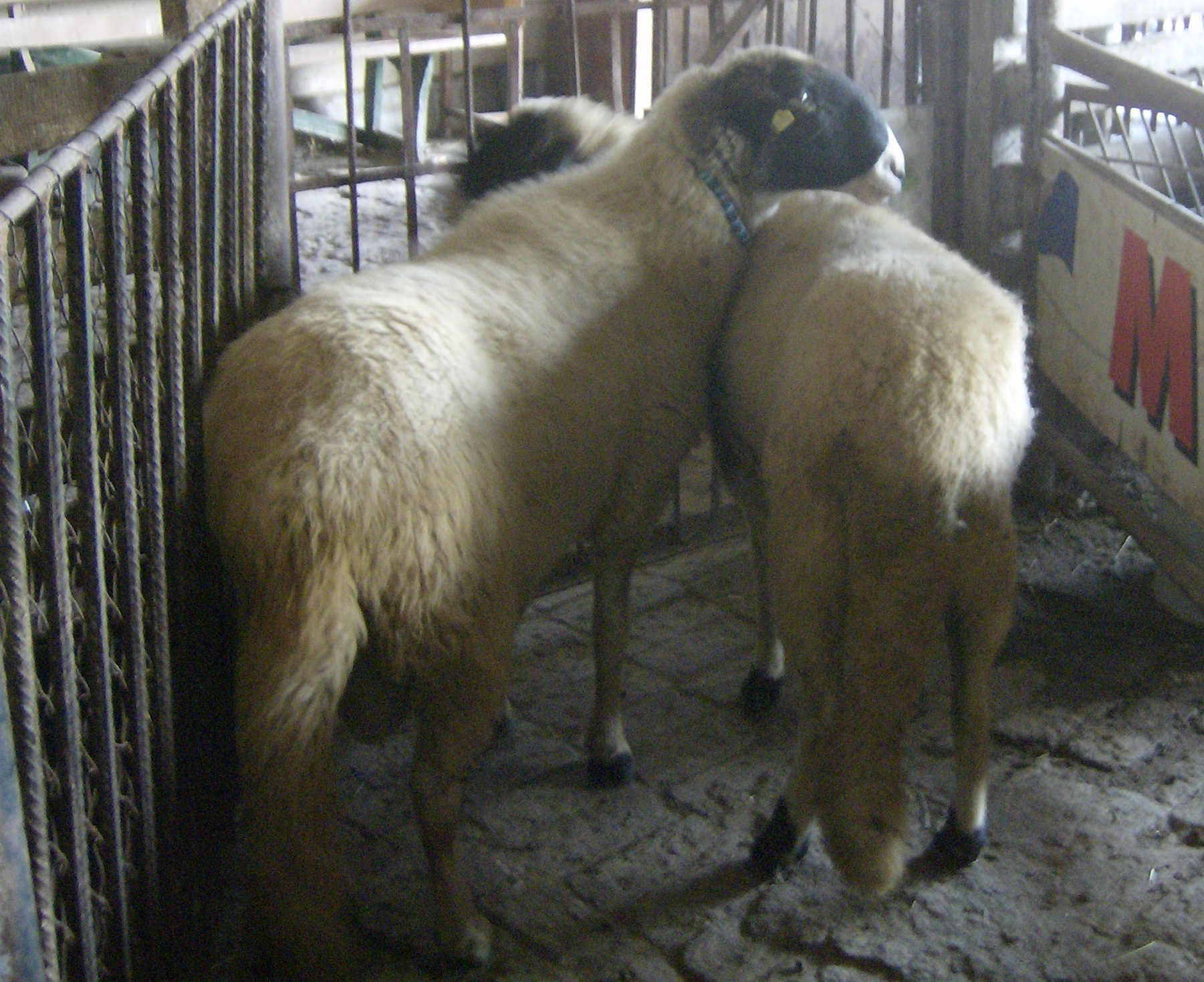 Elin Pelin Sheep